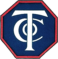 Logo used by Thanhouser Company